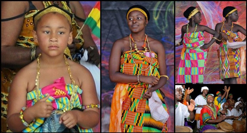 Ghanaian Music and Dance – Culture of Ghana: Ghanaian Dancers and Drummers.